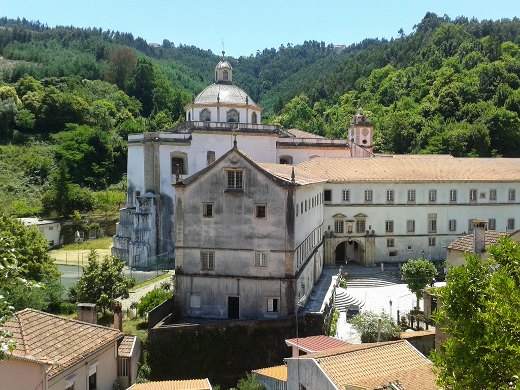 Monstery of Lorvao